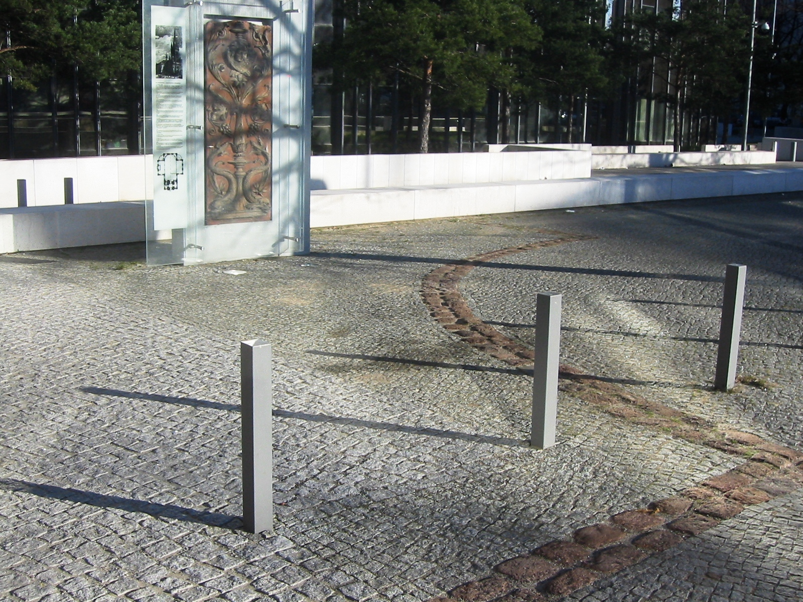 Implied layout of the Jerusalem church with red stones (before the Axel-Springer-Building in Berlin-Kreuzberg (Germany)